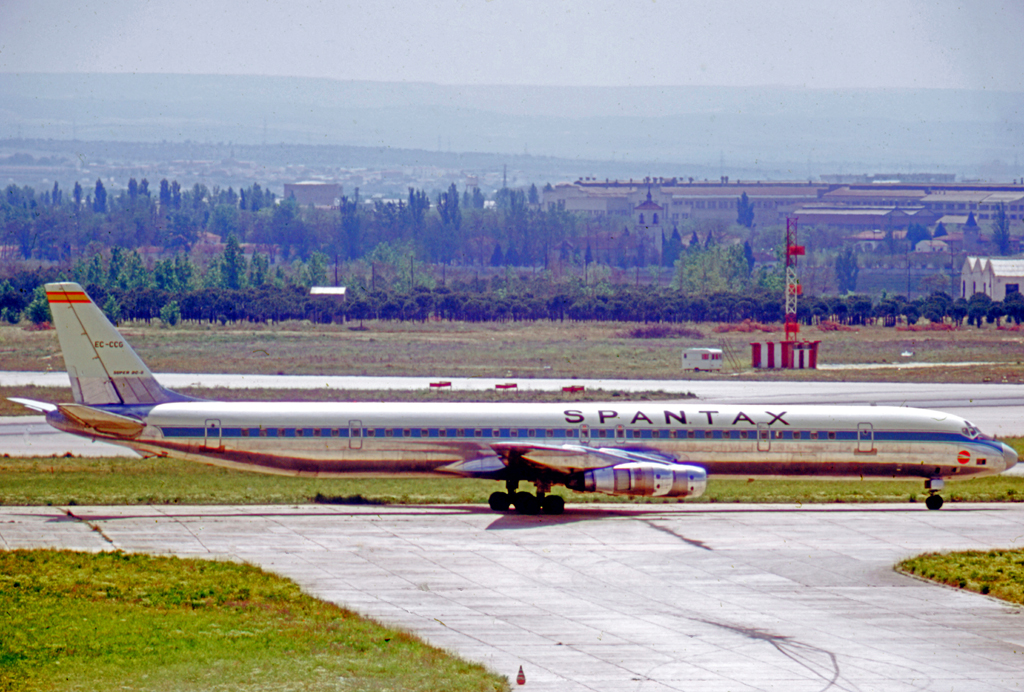 Douglas DC-8-61CF EC-CCG of Spantax SA at Madrid Barajas in 1973